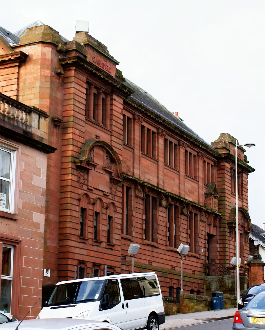 coatbridge library photo - own work